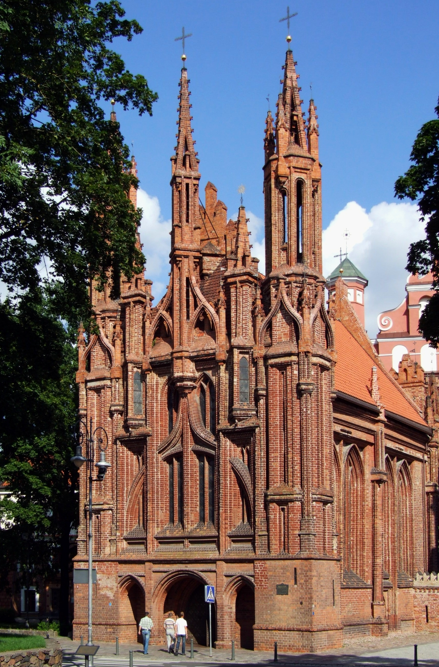 St. Anne's Church in Vilnius (Wilno)